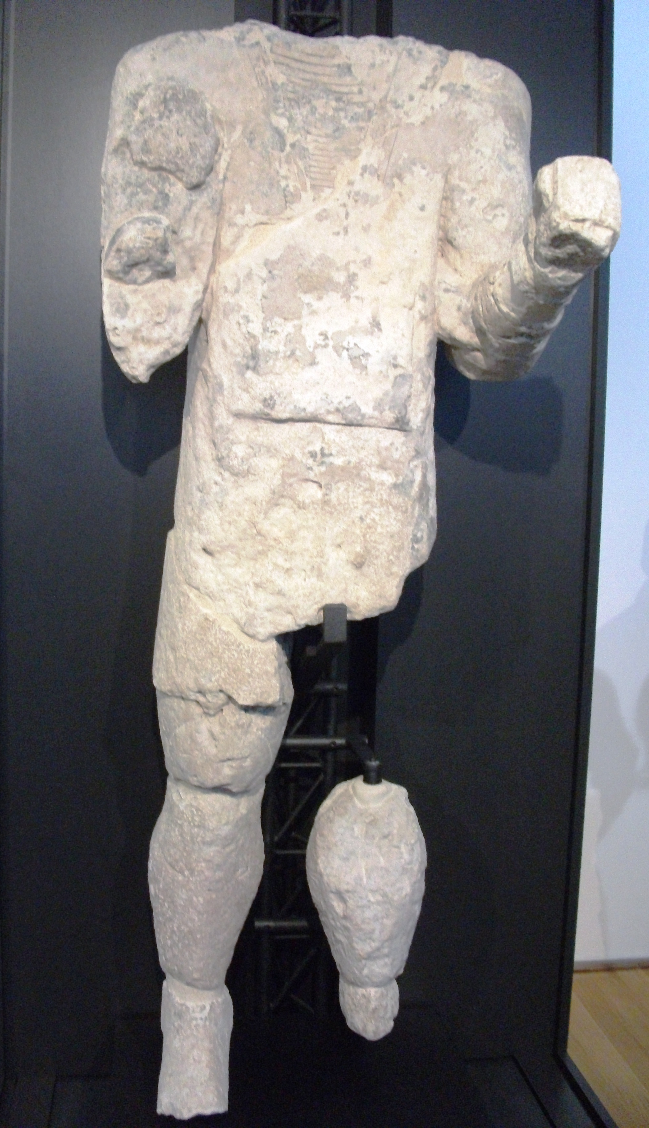 Sculpture, Giant of Monte Prama, boxer, Sardinia, Italy, Nuragic civilization,archaeology, bronze age, sea peoples,prehistory